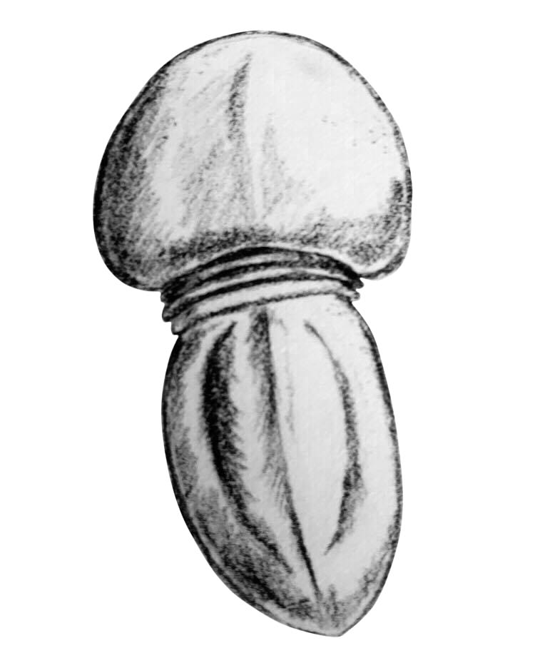 Tariccoia